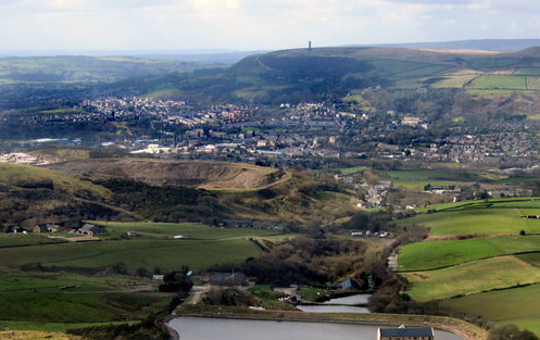 The town of Ramsbottom is in the bottom of the valley. The monument in the distance